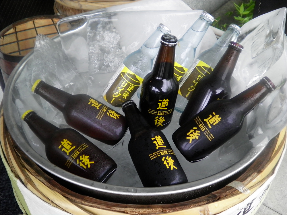 Dogo Beer for sale at Nikitatsu Kurabe in Matsuyama, Ehime, Japan